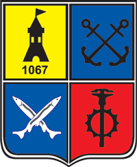 Azov (Rostov oblast), coat of arms